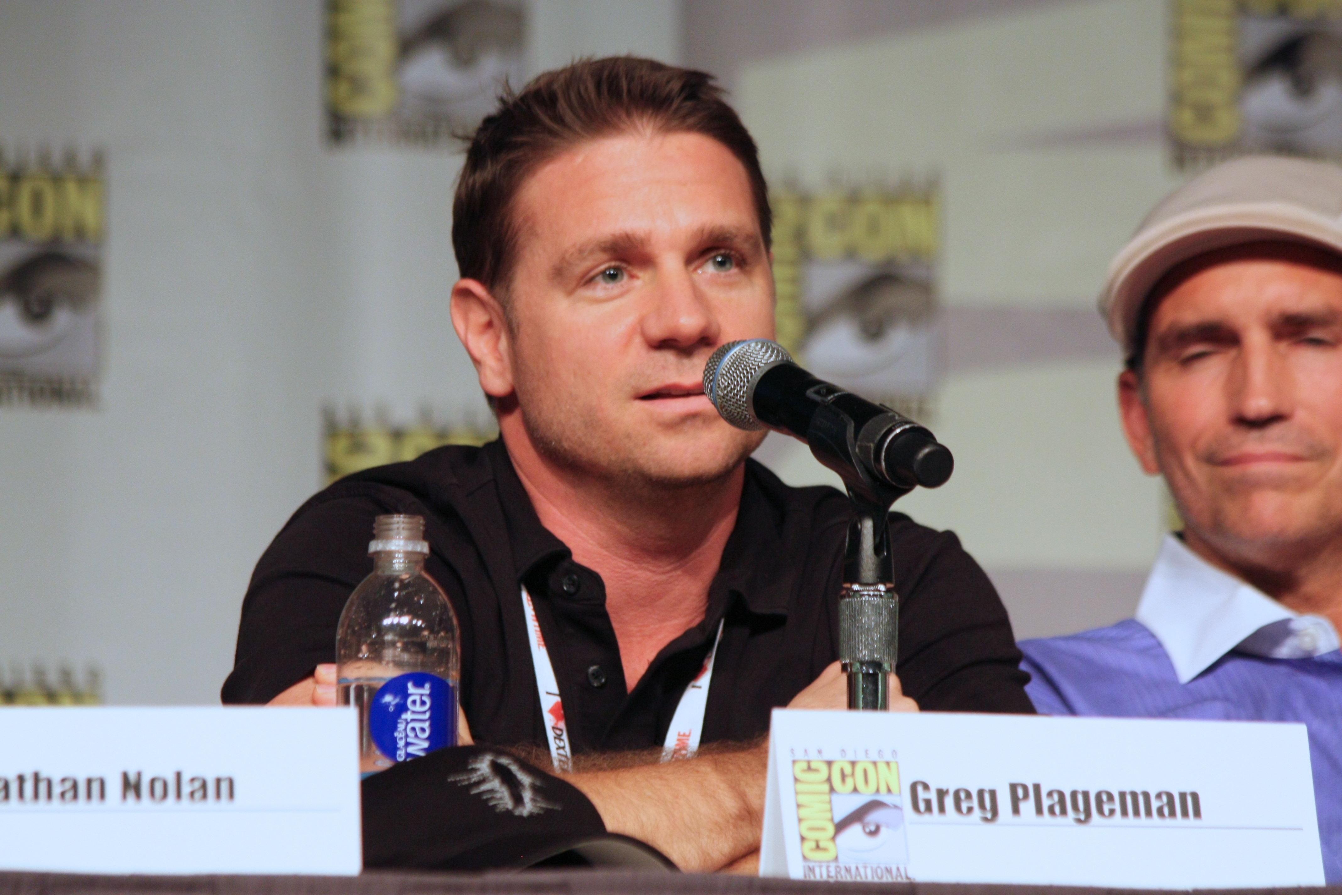 Greg Plageman Person of Interest Panel at the 2014 San Diego Comic Con